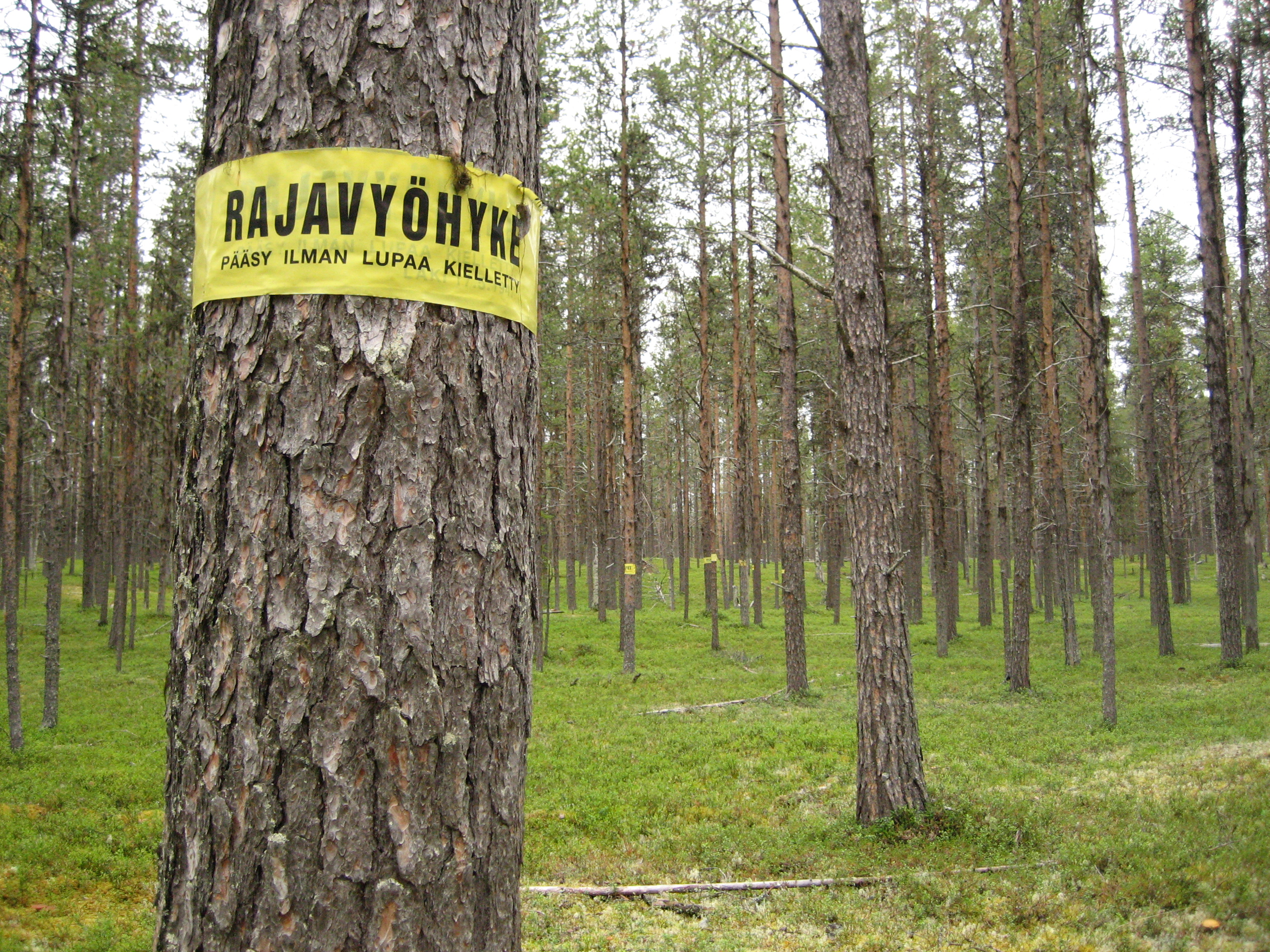 Finnish border zone sign on a Scots Pine (Pinus sylvestris) in Salla, Finland. On the other side of the signs, there is a three-kilometer border zone towards Russia. Text: Border zone. No unauthorized access.